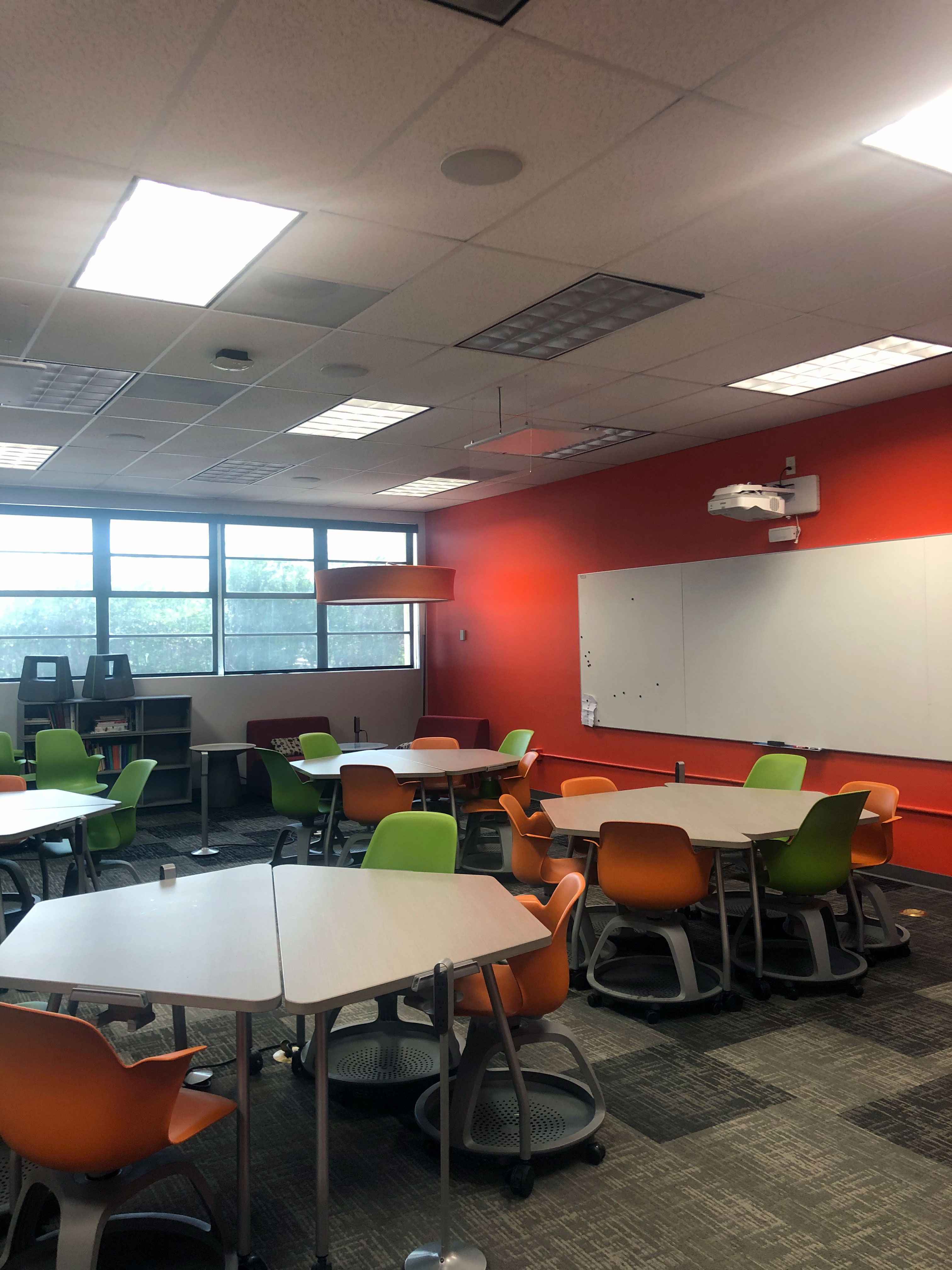 The Active Learning Center Classroom in Building 13, funded by through a Steelcase Education grant, written by: Professor Sarah Meyer, Associate Professor Melissa Flicker, and Assistant Professor Anthony Acock